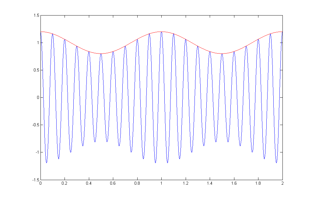 Amplitude modulated signal, modulated using a sine function and modulation depth of 20 %.